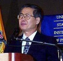 President Alberto Fujimori of Peru. February 5, 1999 at the U.S. Institute of Peace.